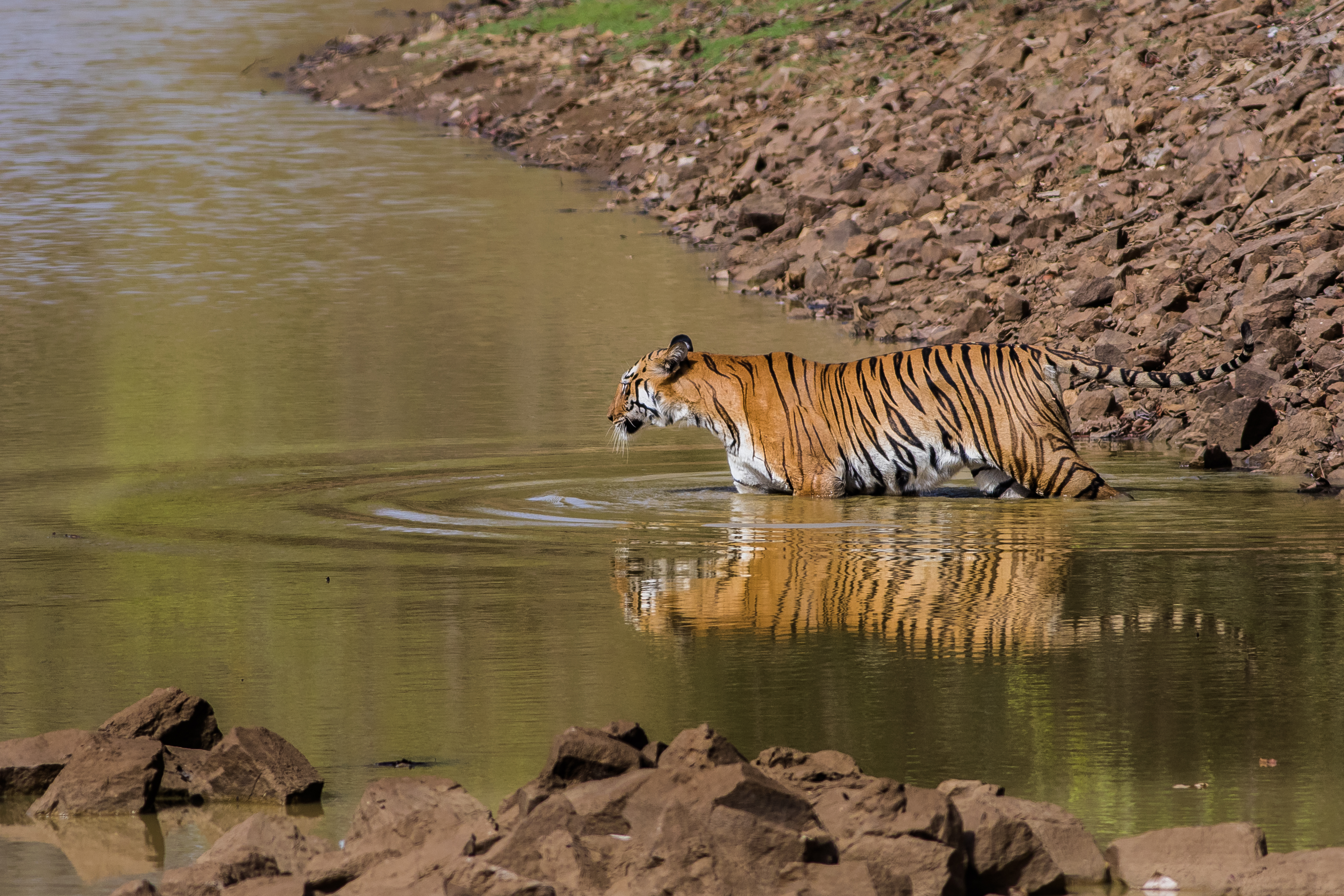 Tigress Maya, at Tadoba Andheri Tiger Reserve (Maharasthra)